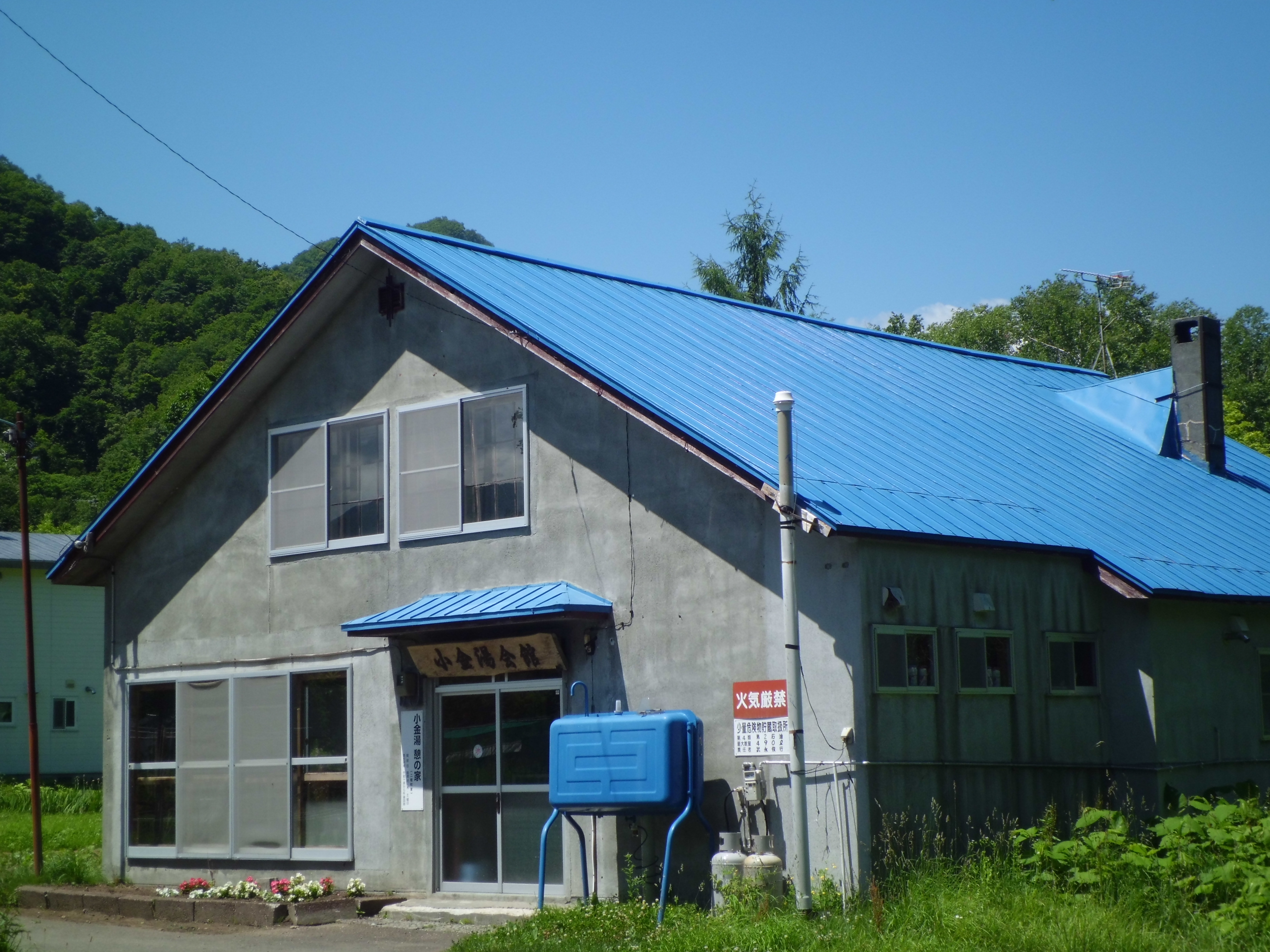 Koganeyu Hall